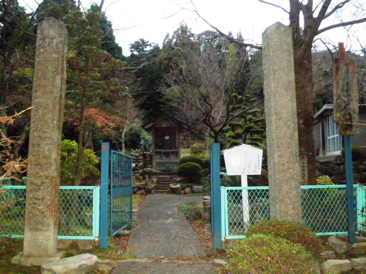 Site of Chōsokabe Morichika's position in the Battle of Sekigahara located in Tarui, Gifu.